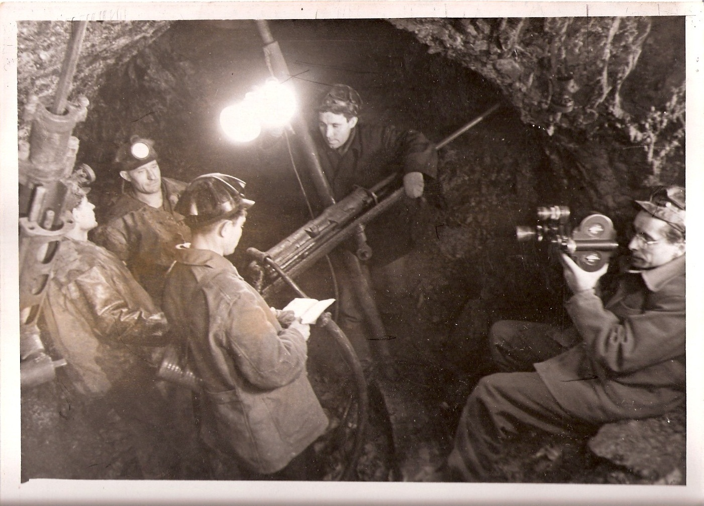 I. Gershtein, from the Gershtein family archive.